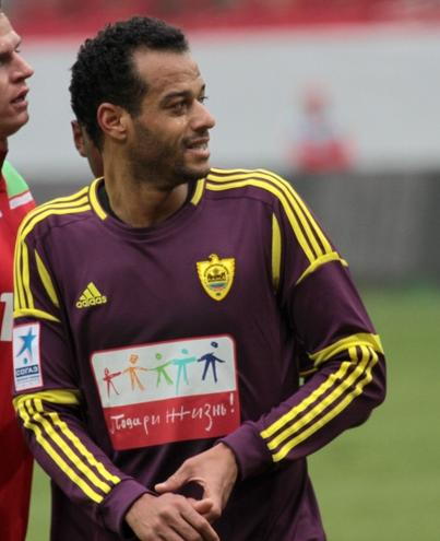 João Carlos Pinto Chaves with FC Anzhi Makhachkala.